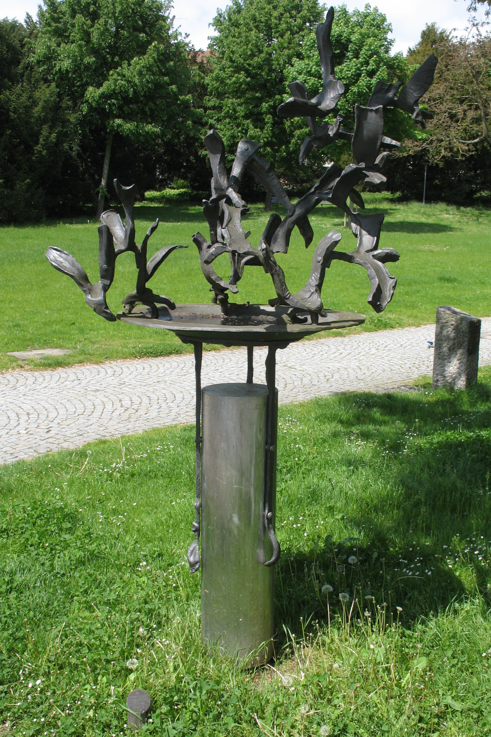 Fountain in urban park in Friedrichshafen in Baden-Württemberg, Germany